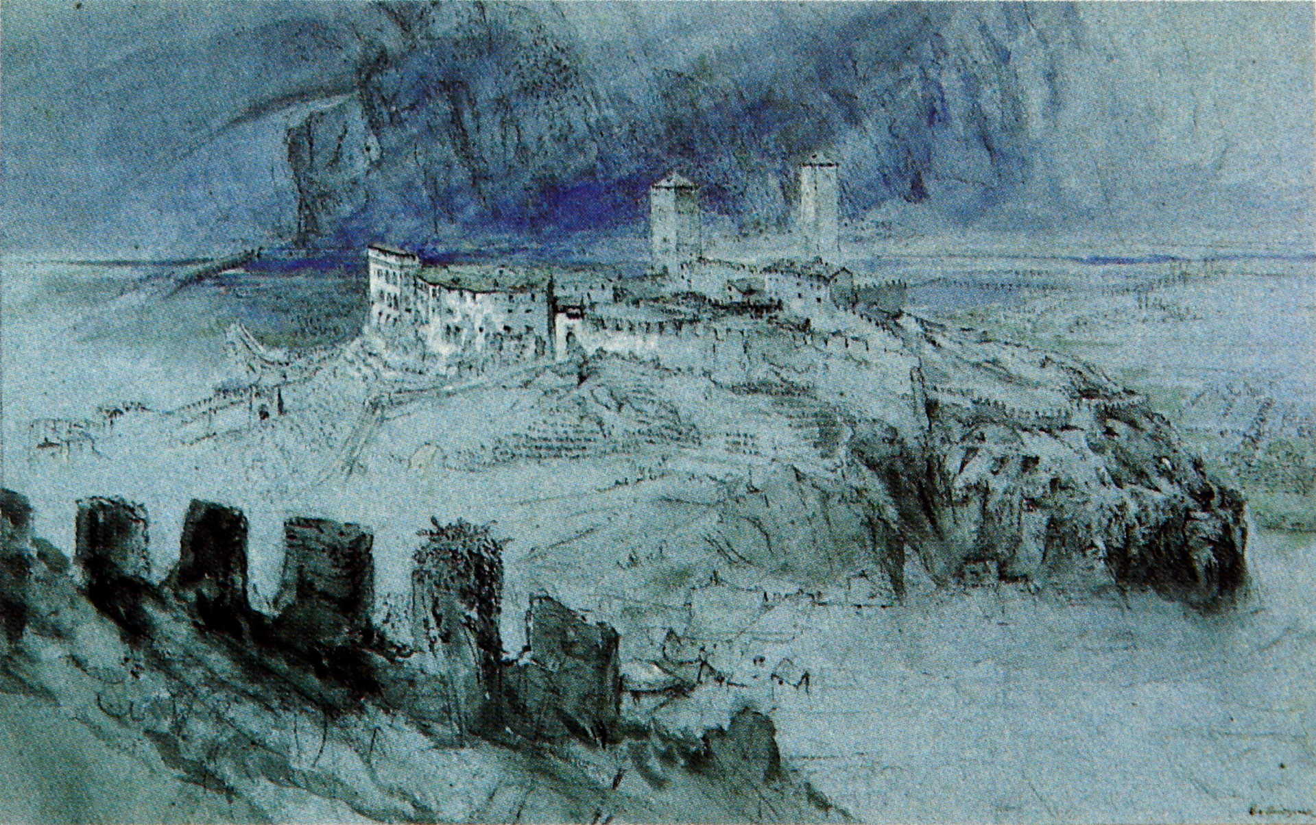 Bellinzona. Pencil, watercolour and bodycolour on blue-grey paper, 31.2 x 51.3 cm